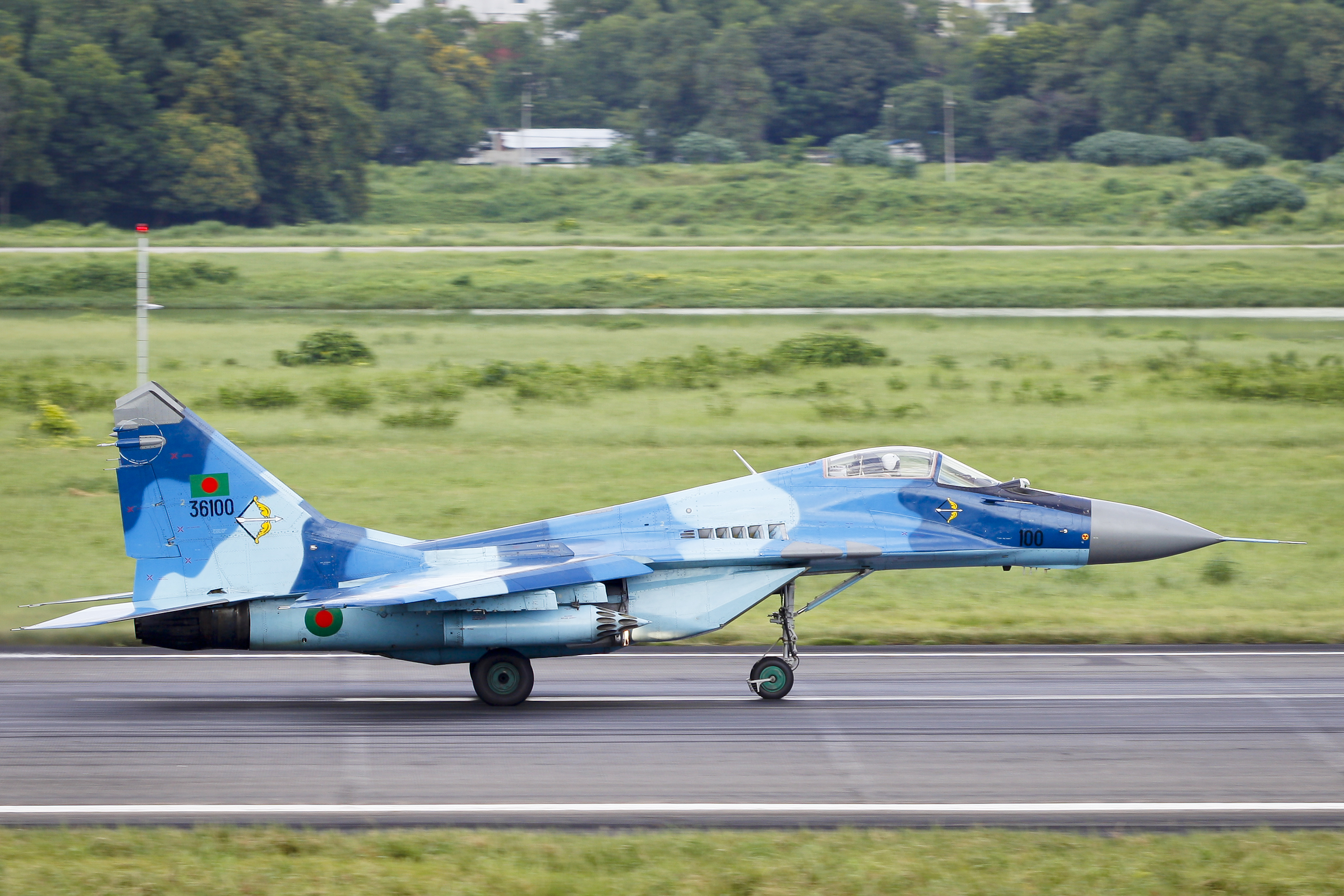 36100 Bangladesh Air Force MIG-29 Running For Take Off